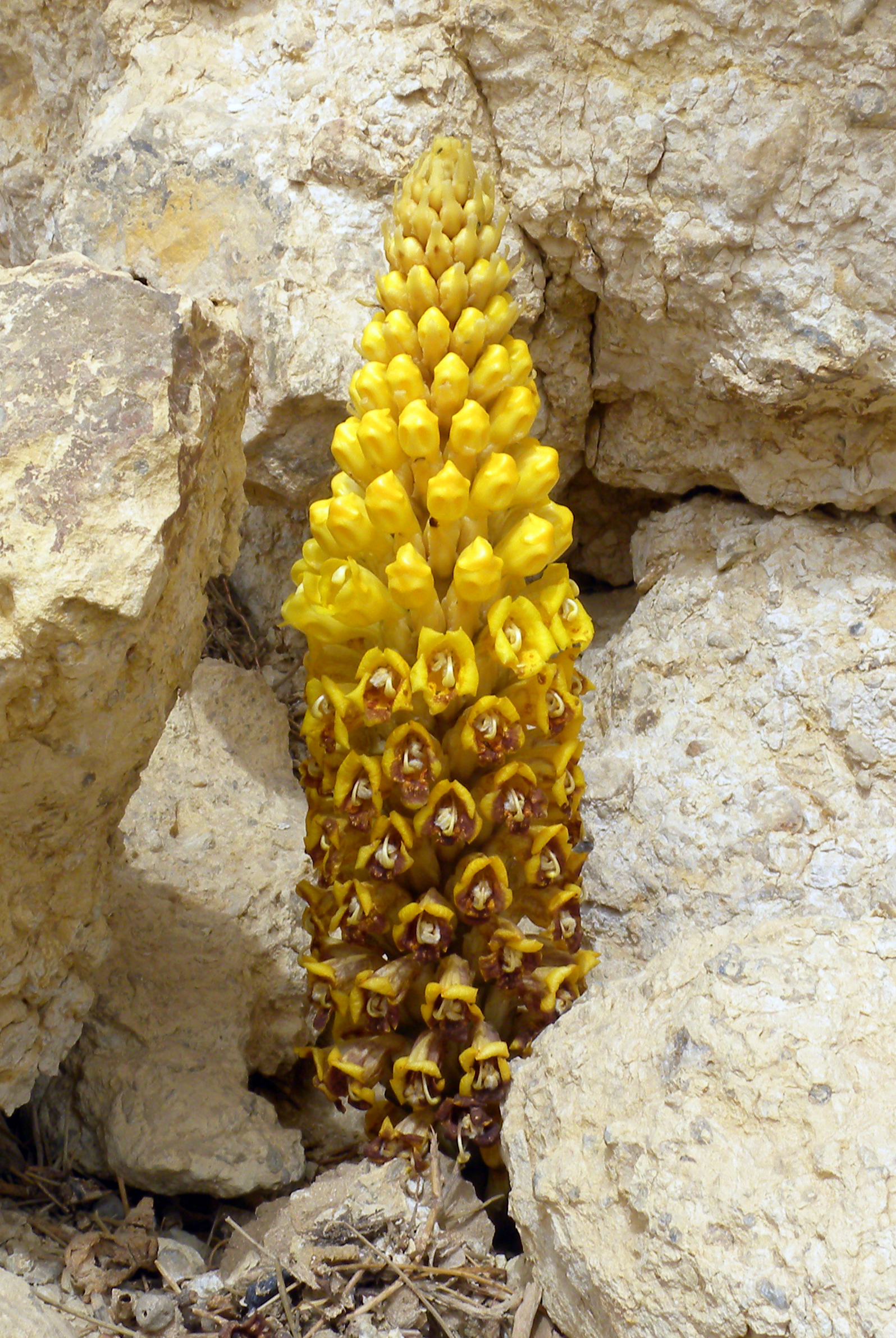 Broomrape (Cistanche tubulosa) in Hamakhtesh Hagadol, Negev, southern Israel.